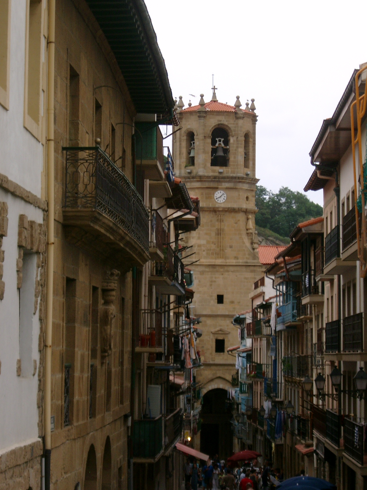 San Salbador church in Getaria, Guipuscoa, Basque Country